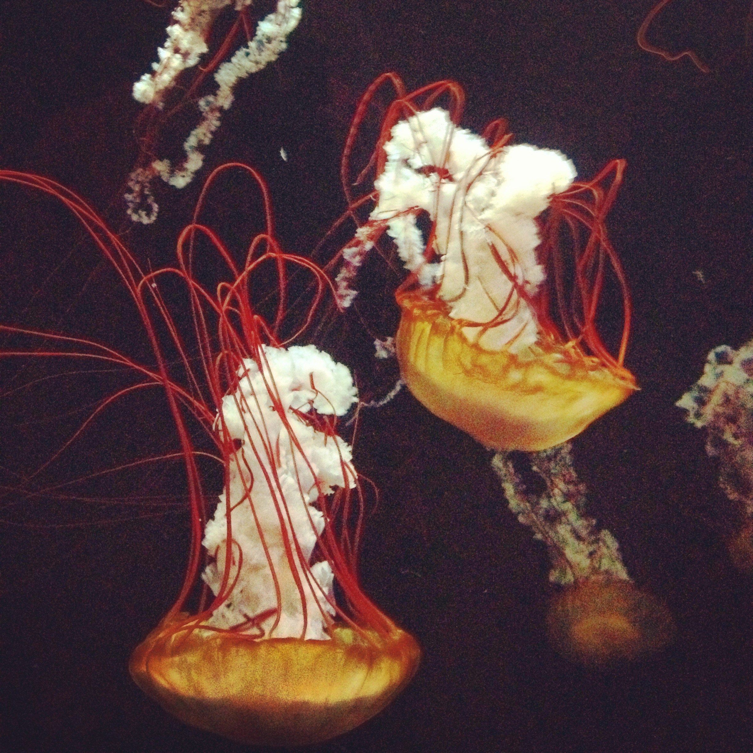 Jellyfish on exhibit at the Fort Wayne Children's Zoo.